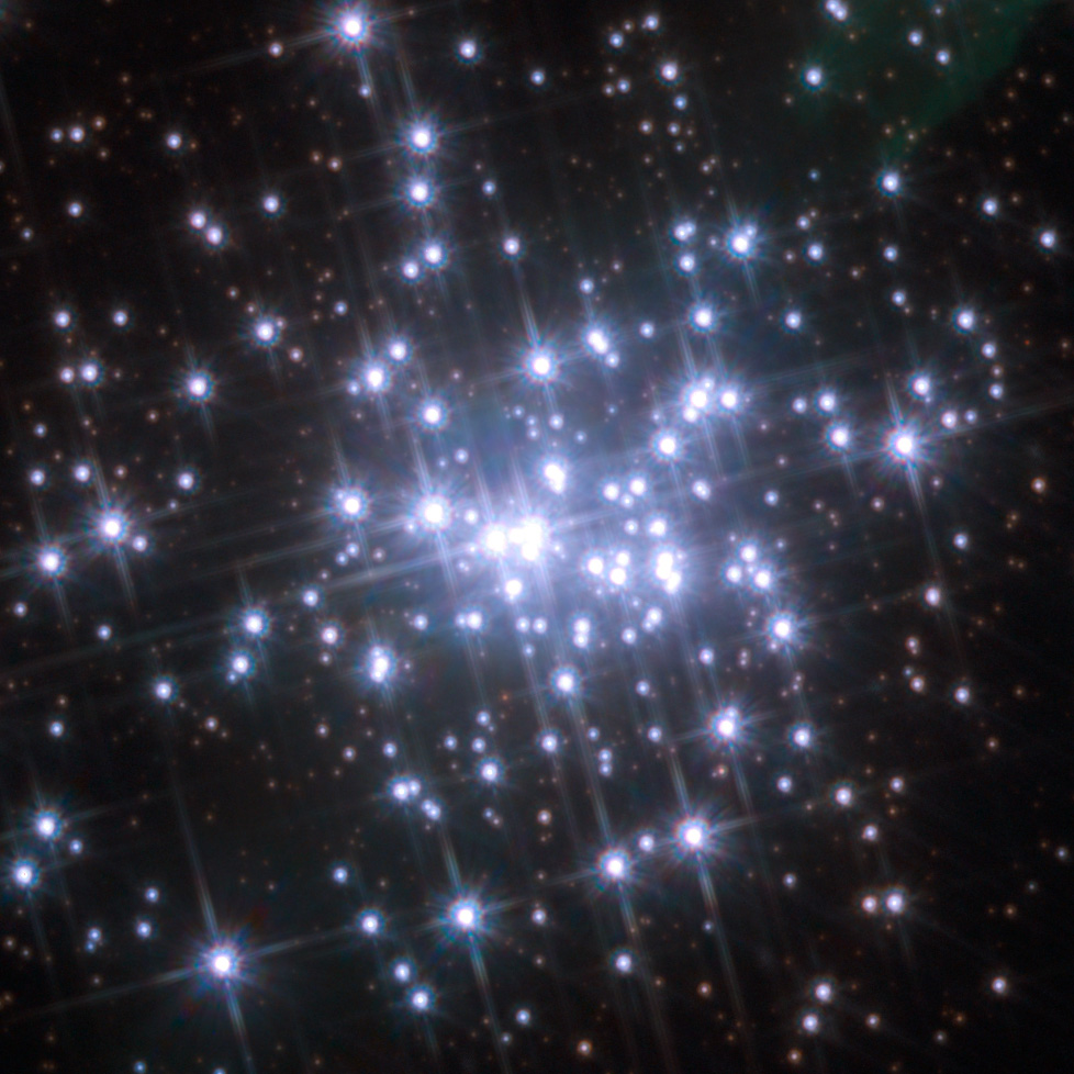 The core of the star cluster in NGC 3603 is shown in great detail in an image from the Wide Field Planetary Camera 2 (WFPC2) camera on the NASA/ESA Hubble Space Telescope. The image is a colour composite of observations in the WFPC2 filters F555W (blue), F675W (green) and F814W (red). This view shows the second of two images taken ten years apart that were used to detect the motions of individual stars within the cluster for the first time. The field of view is about 20 arcseconds across.